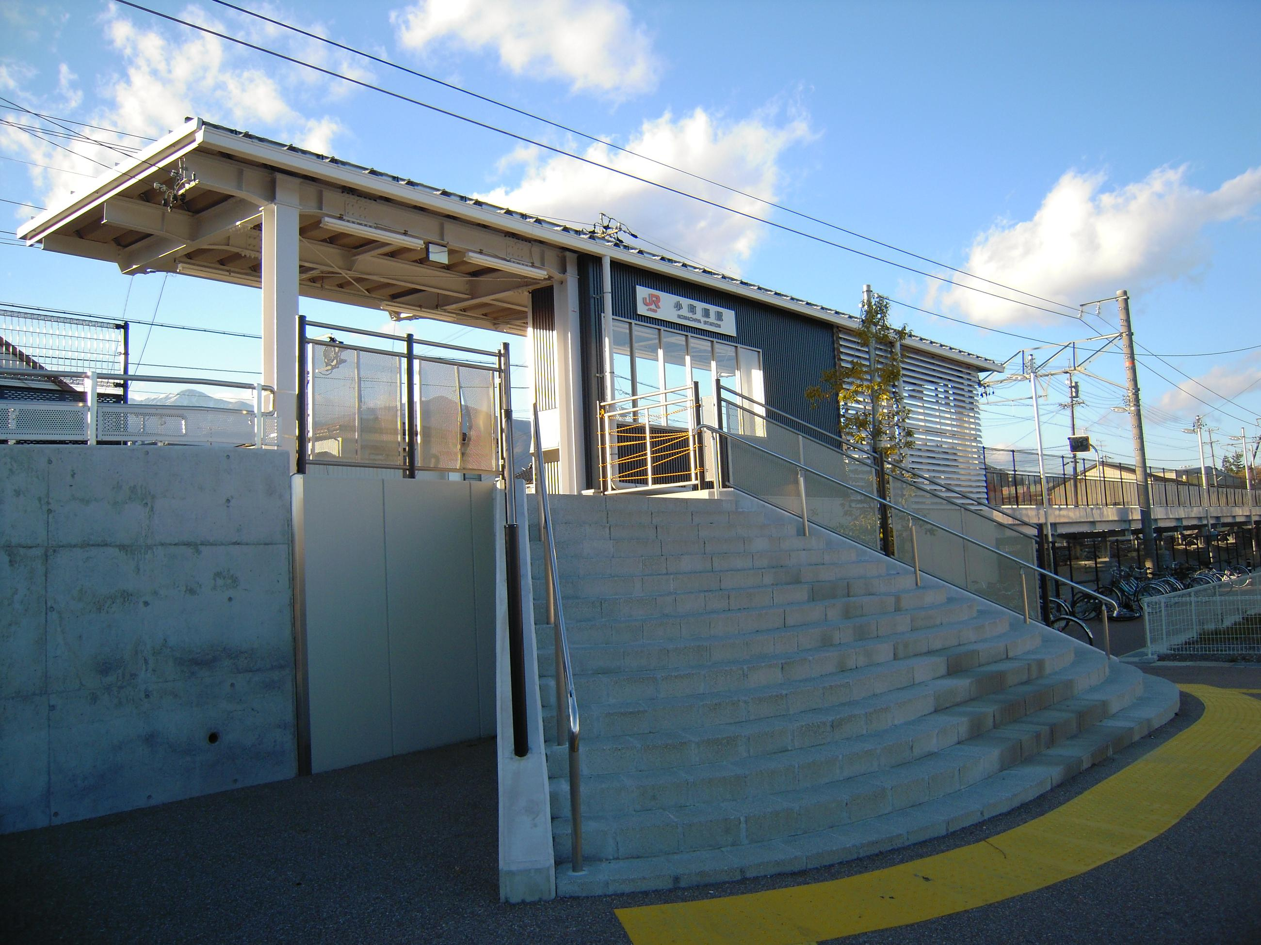 JR Iida Line Komachiya Station